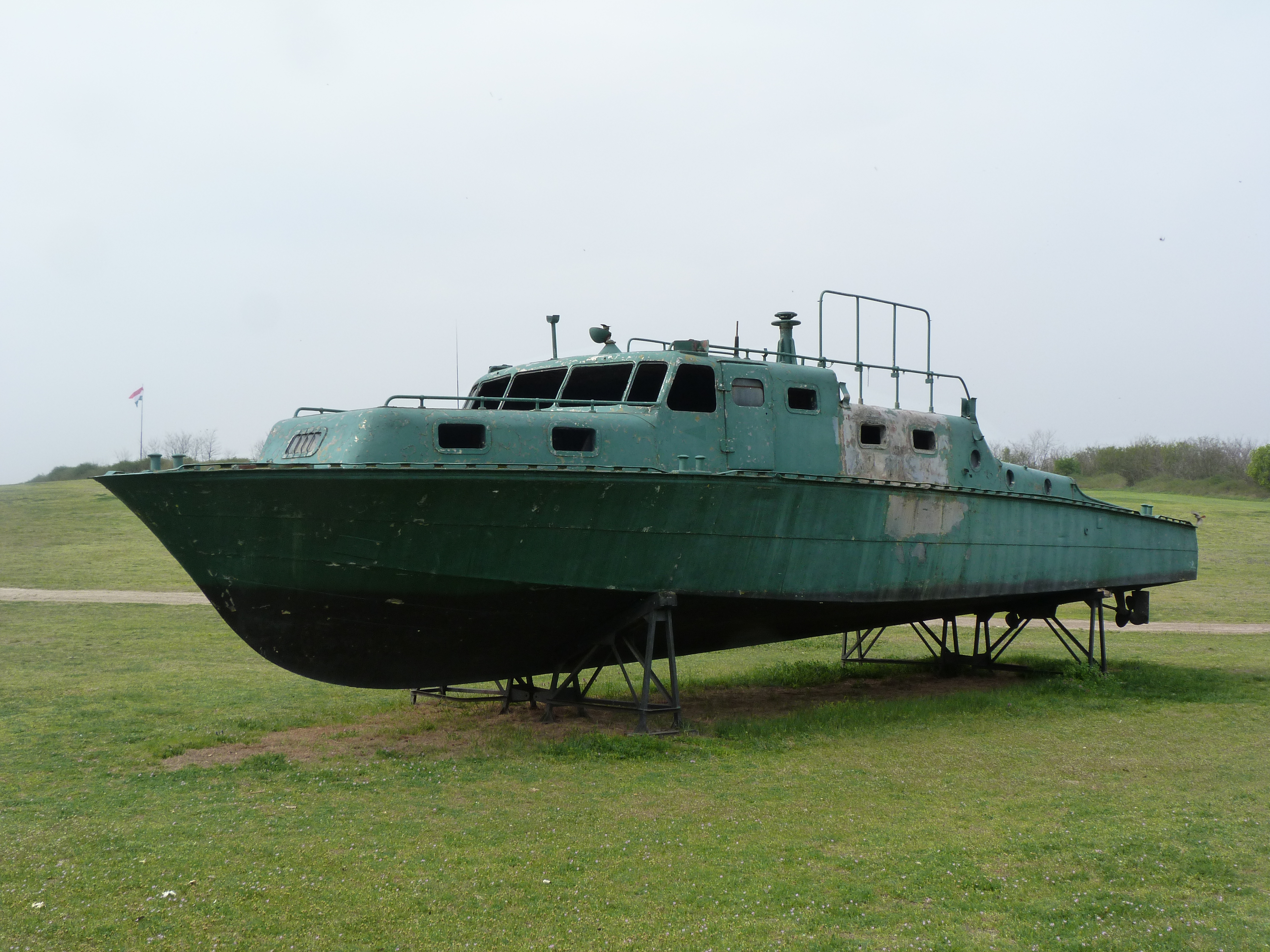 Live on the 31st of March, 2014. Komárom, Hungary. The Monostori Fortress. Open air exibition of the military equipement of the Hungarian People's Army. Photos of the parts and the fortress itself in the Metapolisz DVD line. ©© Derzsi Elekes Andor, Budapest, 2014, You are authorised to use these photos and vids under Creative Commons – even for commercial, for profit purposes. Photos must be attributed to Derzsi Elekes Andor. All of the photos and vids in the Metapolisz DVD line are under Creative Commons and can be used even for commercial – for profit – purposes. Recommended Citation Derzsi Elekes Andor: Metapolisz DVD line